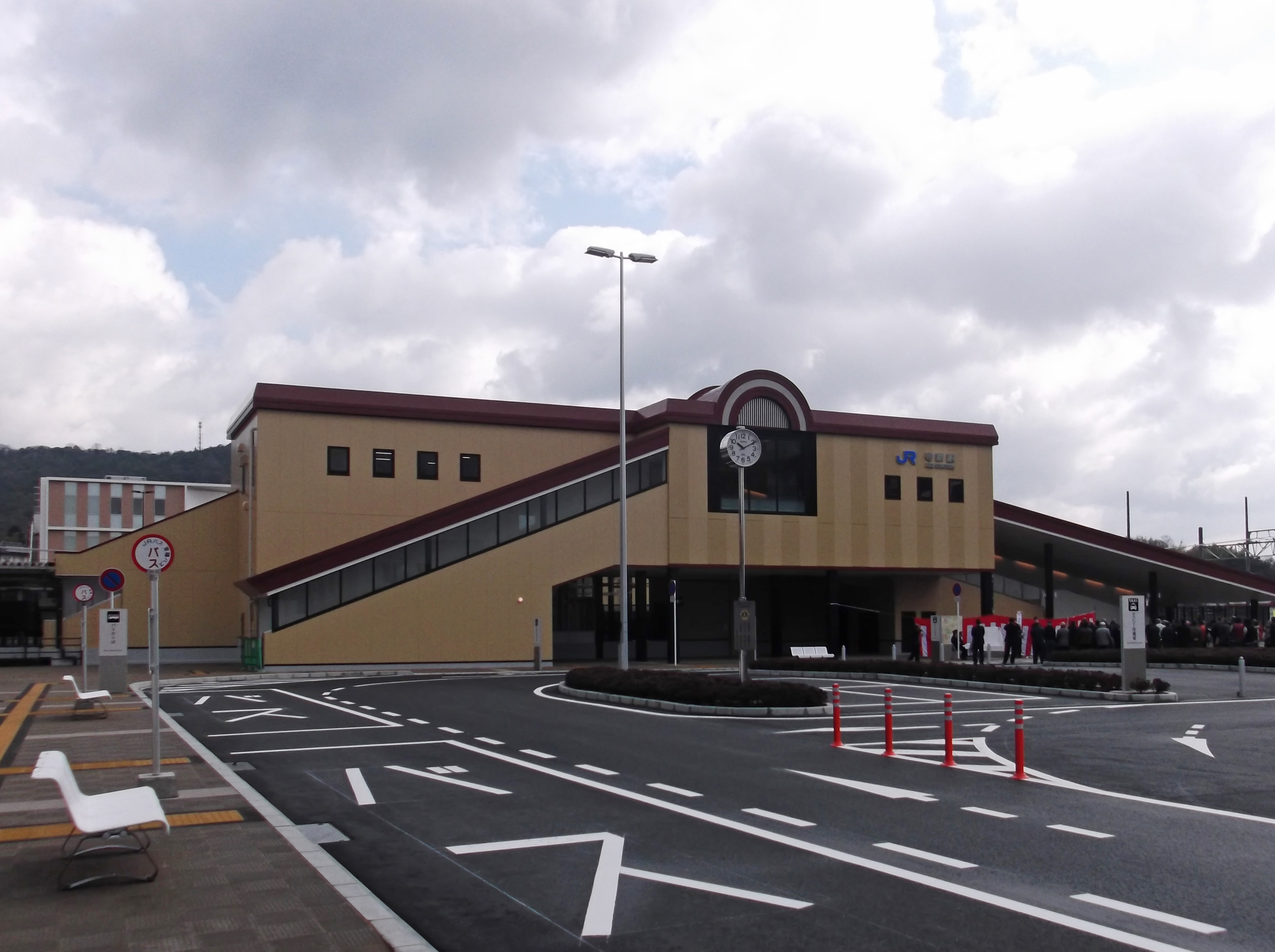 The forecourt on the south side of Jike Station on the Sanyo Main Line in Hiroshima Prefecture, Japan